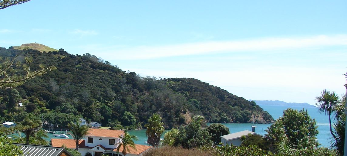 This photo taken from S-E shows the Rangikapiti Pa to the left, and the inlet to the Magonui Harbour to the right.